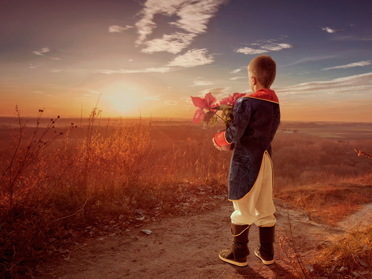 500px provided description: Oh, little prince! Bit by bit I came to understand the secrets of your sad little life . . . For a long time you had found your only entertainment in the quiet pleasure of looking at the sunset. I learned that new detail on the morning of the fourth day, when you said to me: "I am very fond of sunsets. Come, let us go look at a sunset now." "But we must wait," I said. "Wait? For what?" "For the sunset. We must wait until it is time." At first you seemed to be very much surprised. And then you laughed to yourself. You said to me: "I am always thinking that I am at home!" Just so. Everybody knows that when it is noon in the United States the sun is setting over France. If you could fly to France in one minute, you could go straight into the sunset, right from noon. Unfortunately, France is too far away for that. But on your tiny planet, my little prince, all you need do is move your chair a few steps. You can see the day end and the twilight falling whenever you like . . . "One day," you said to me, "I saw the sunset forty-four times!" And a little later you added: "You know--one loves the sunset, when one is so sad . . ." "Were you so sad, then?" I asked, "on the day of the forty-four sunsets?" But the little prince made no reply. [#autumn ,#color ,#light ,#child ,#magazine ,#little ,#rose ,#moody ,#prince ,#photographer ,#cover ,#fairy tail ,#popular ,#editor ,#photooftheday ,#exupery ,#Landscape ,#Portrait ,#Sky ,#Sunset ,#Austria]